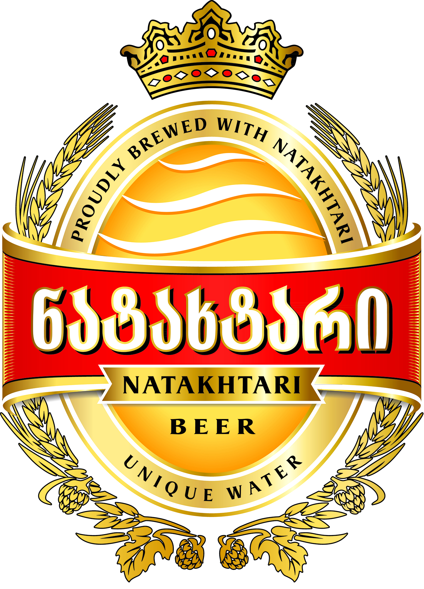 Logo of Natakhtari